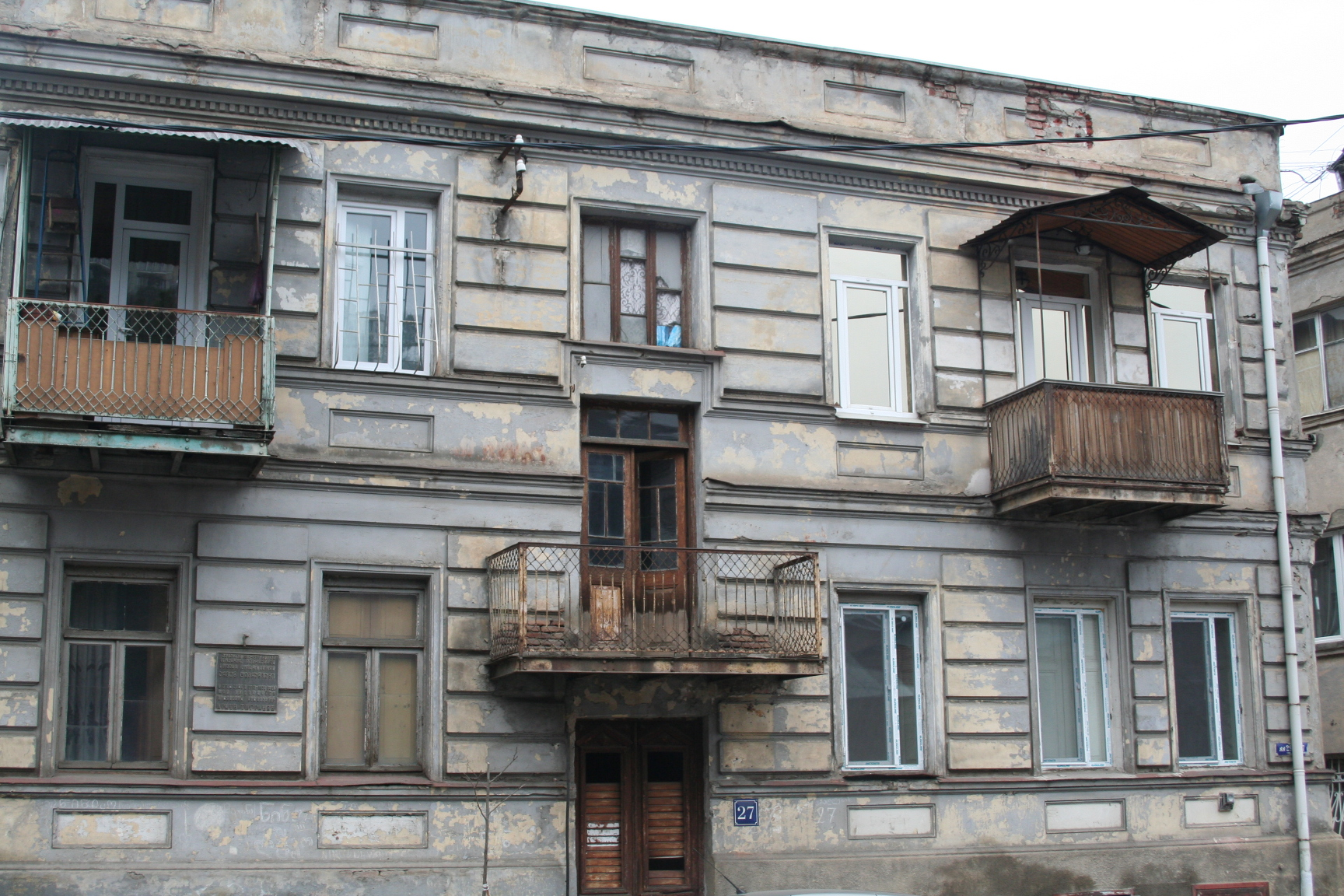 House in Tbilisi where Armen Tigranyan lived